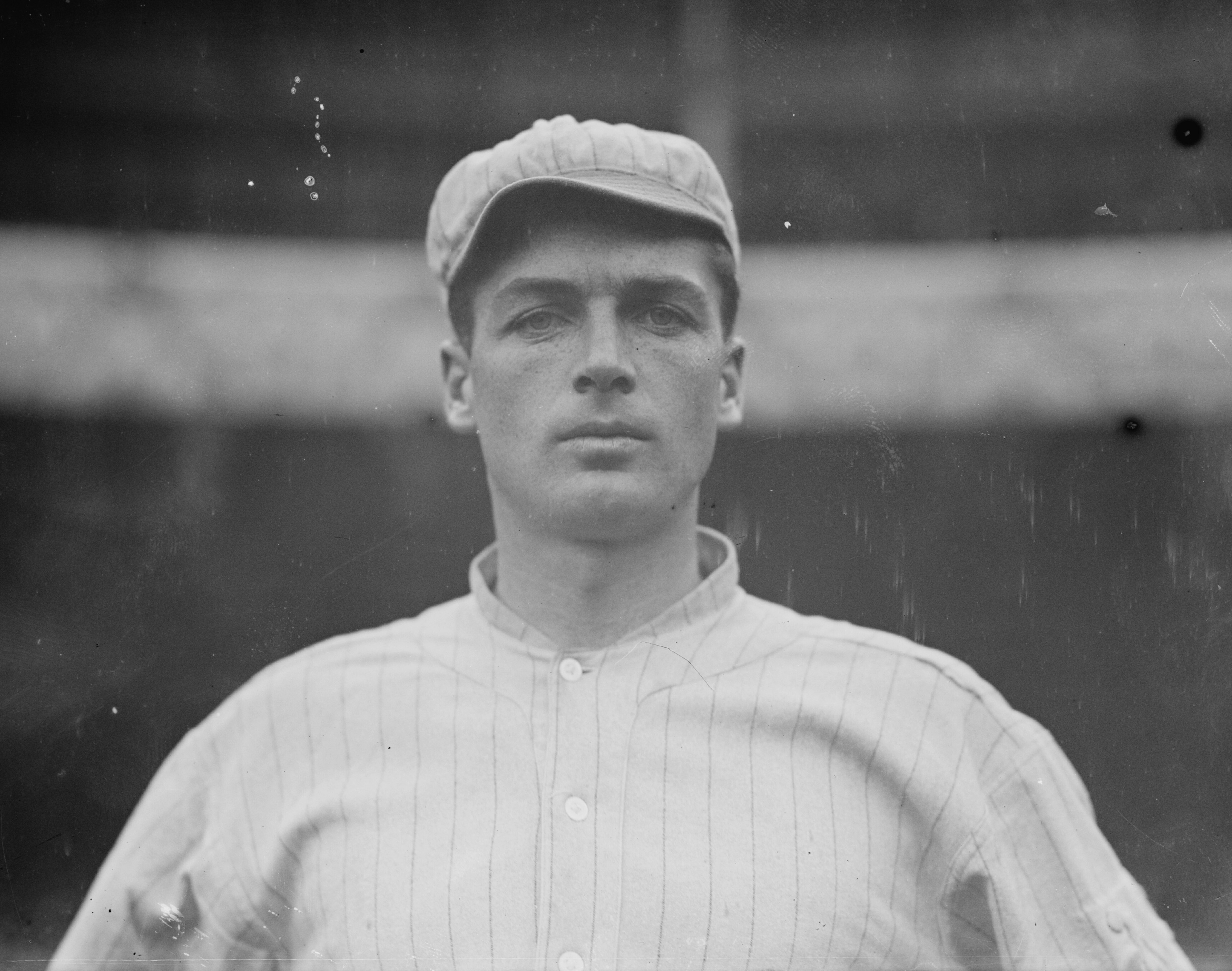 1913 photograph of Tillie Shafer of the New York Giants.